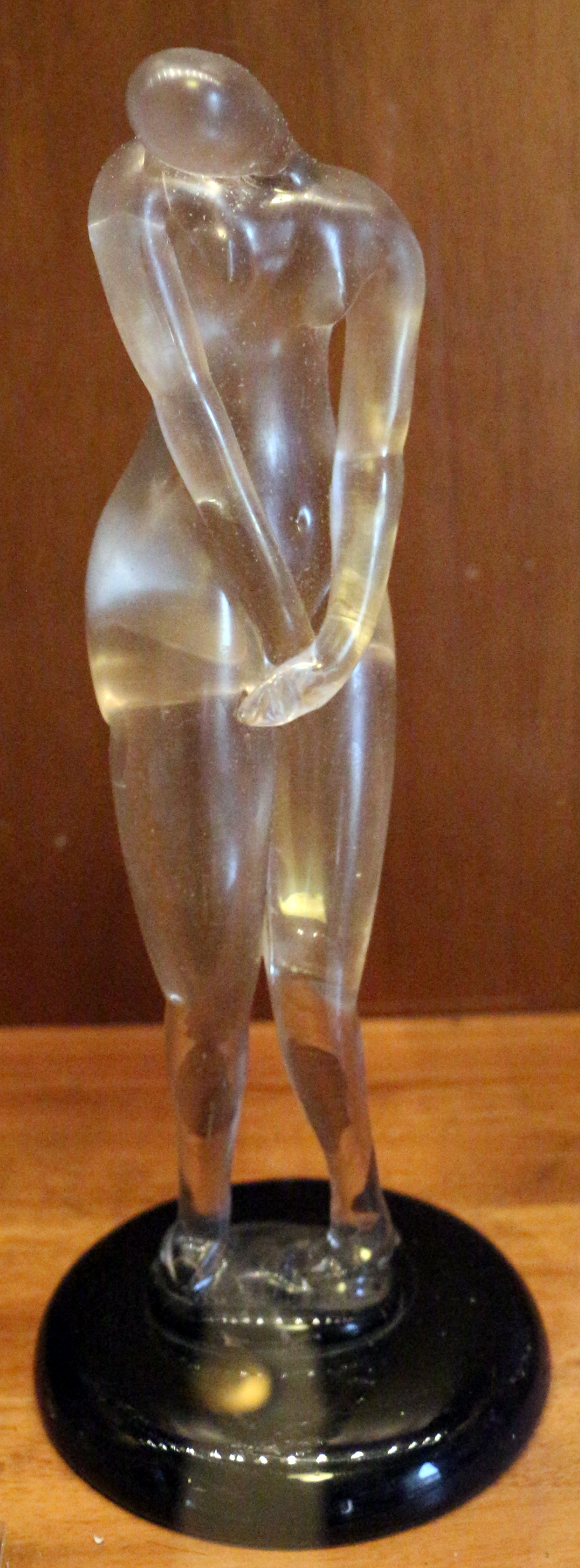 Raccolte d'arte applicate del Castello Sforzesco di Milano - Glass